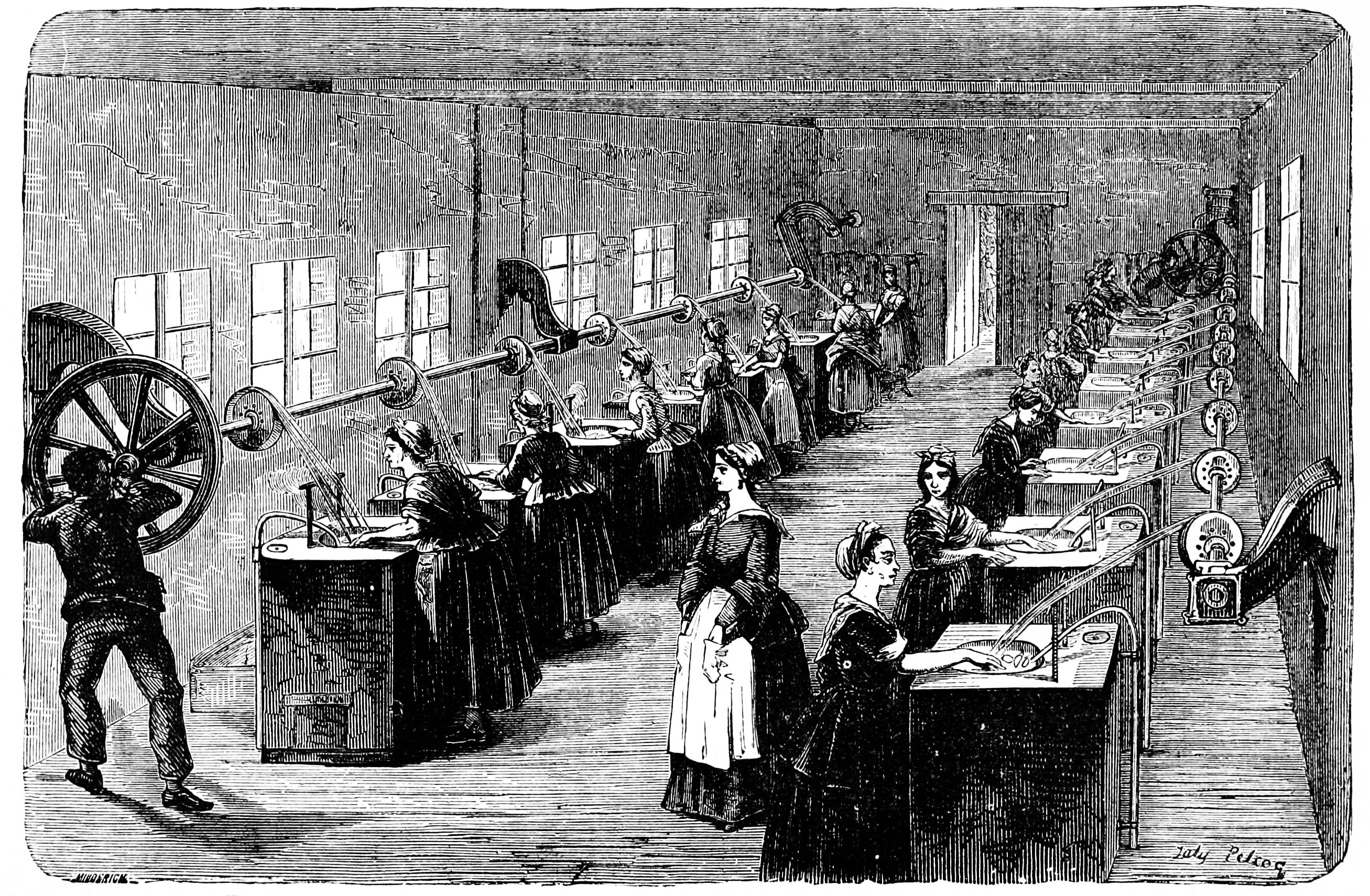 Silk winding equipment